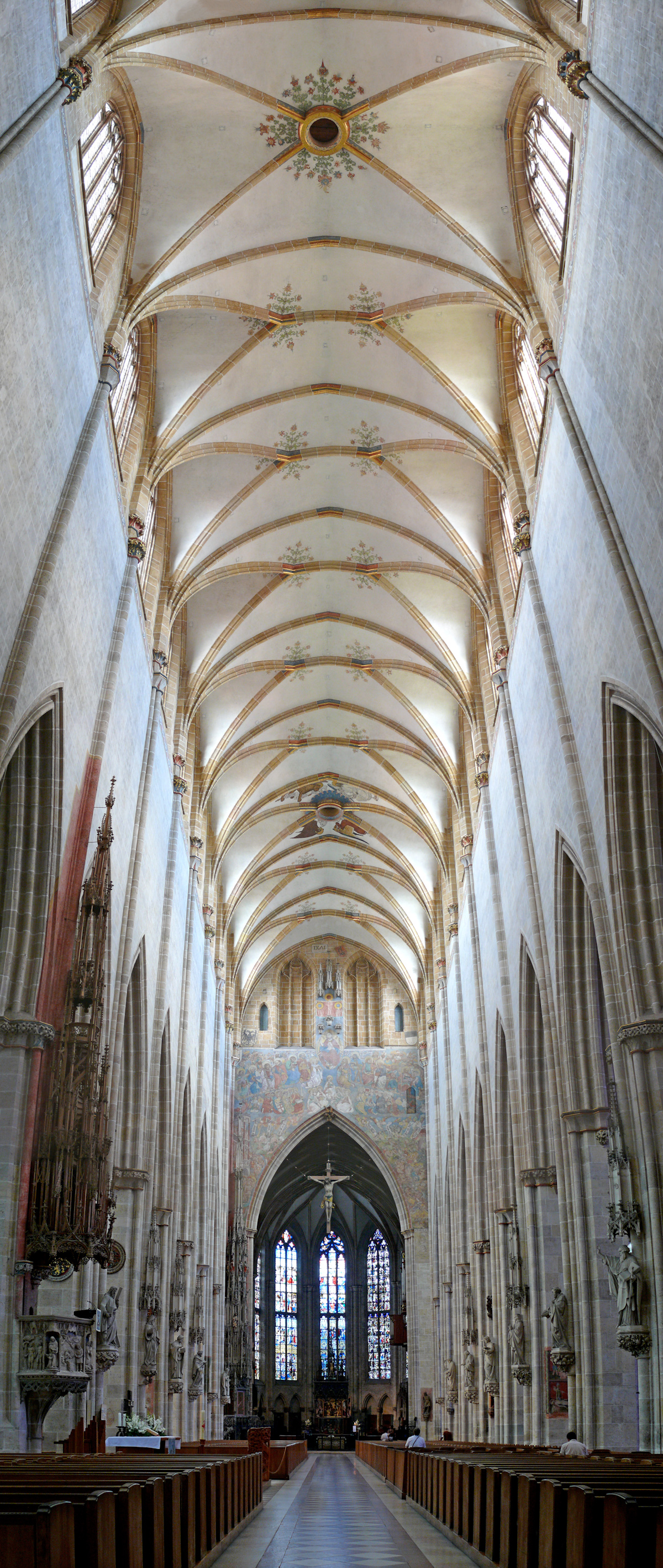 Middle nave of the Ulm Minster, view to the altar und up to the ceiling, vertical panorama of 4 single pictures